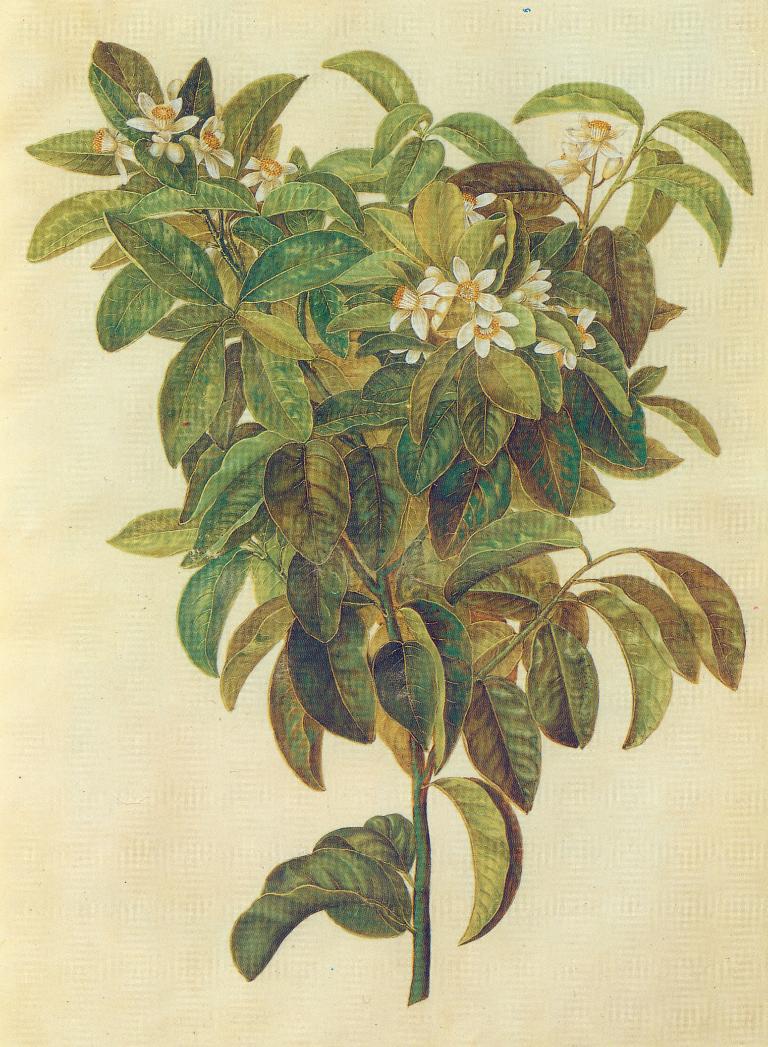 Citrus limon, gouache on vellum, in: Gottorfer Codex